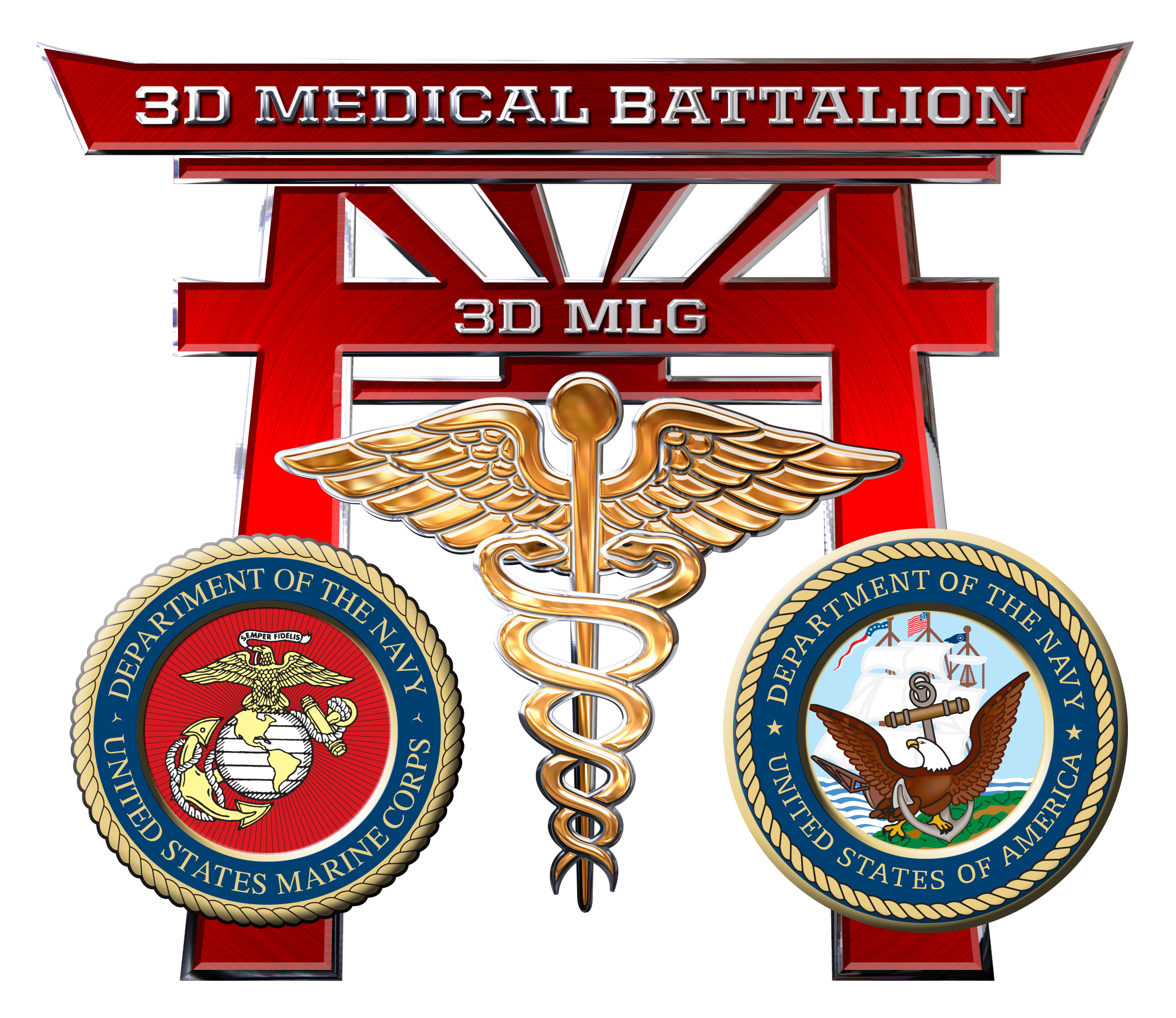 Torii